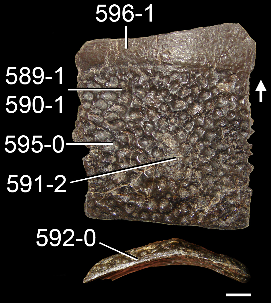 A dorsal osteoderm of Doswellia kaltenbachi (USNM 244214) seen from above (top) and head-on (below). Scale bar equals 5 mm. Character state scores= 589-1: Sculpturing on the external surface of osteoderms. 590-1: Coarse and incised ornamentation composed of central regular pits of subequal size and contour on the external surface of the dorsal osteoderms. 591-2: Blunt, anteroposteriorly restricted eminence on the external surface of paramedian osteoderms. 592-0: Thin paramedian osteoderms. 595-0: Dorsal osteoderms square-shaped, about equal dimensions. 596-1: Unornamented anterior lamina in paramedian osteoderms.